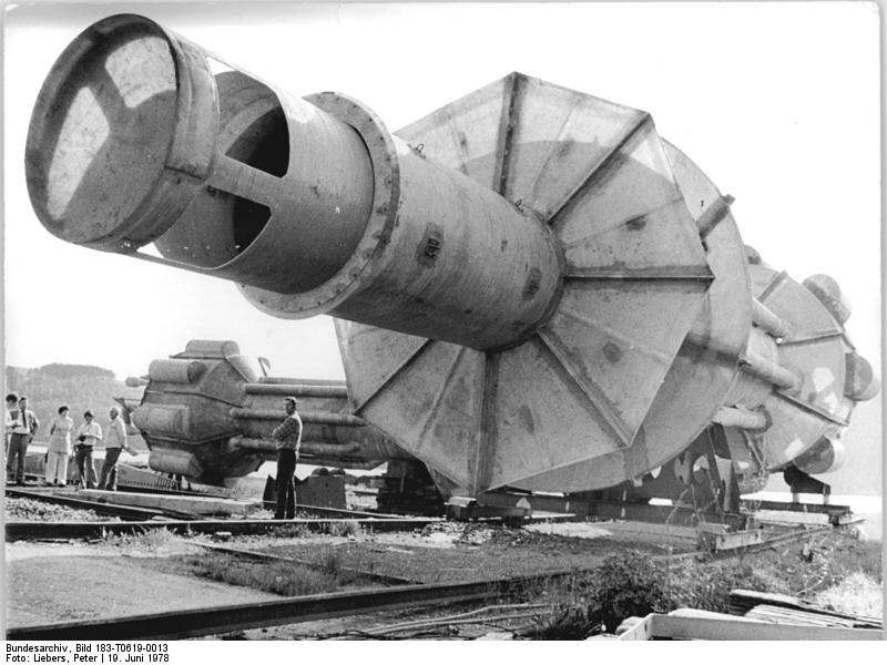 Ventilation system for lead hole reservoir ADN-ZB-Liebers 19.6.78 Signed Gera: Cosmic missiles are similar to these systems that are intended for ventilation of the deep water of the reservoir hole lead at Castle Hall. The 10 of these 20-ton units, which consist almost entirely of glass fiber reinforced resin have been previously exposed to the largest dam in the GDR. The suction pipes of the plants range 28 meters deep in the water and promote daily about 9000 cubic meters of low-oxygen, sulfide-rich water from deep layers to the top. Angereicherrt with oxygen, the water is then pushed back into the danger zones. (see also T0619-14 & 15N) After the previous three years of use of the facilities could sulphite already significantly reduced and the self-purification capacity of the water are greatly improved. Auto-translatedvia Google